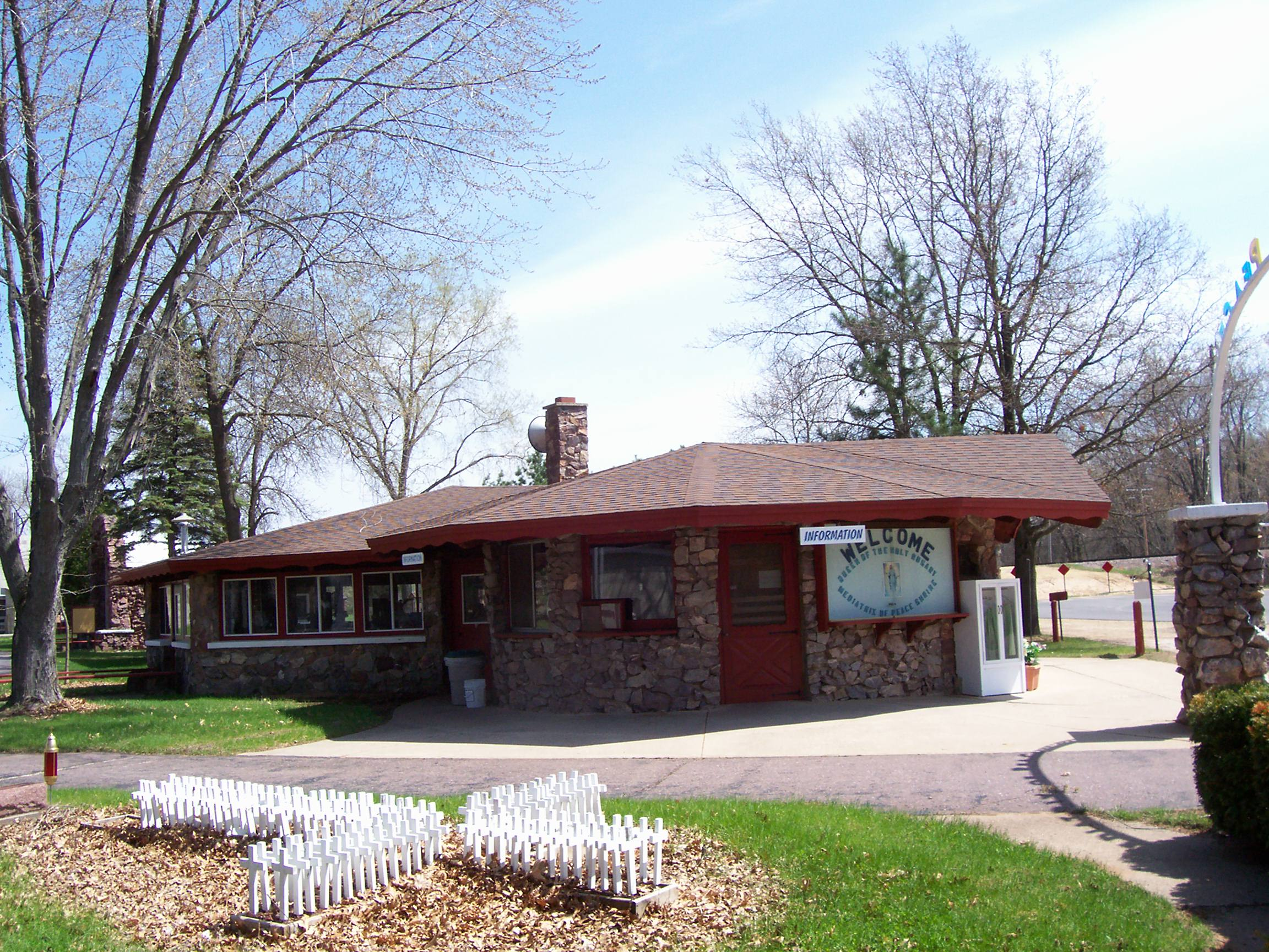 The welcome center at the Necedah Shrine east of Necedah, Wisconsin, USA.